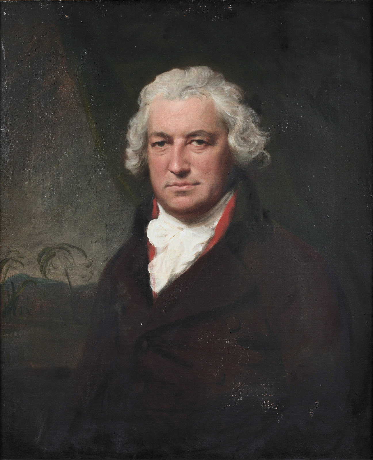 Bryan Edwards oil on canvas 76.3 x 63.3 cm